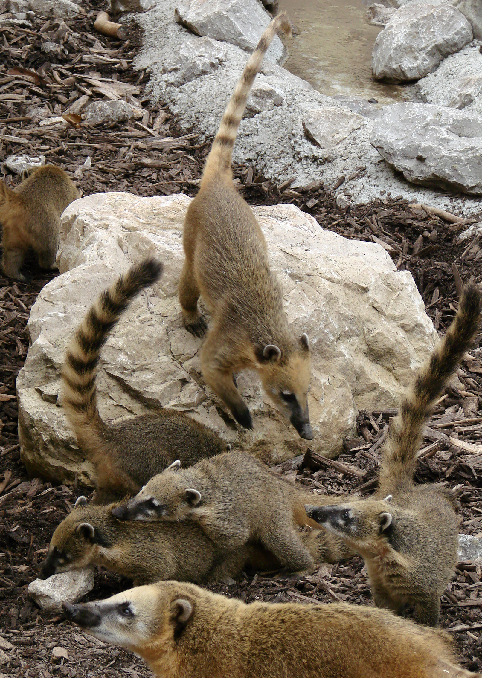 Ring Tailed Coatis (Nasua nasua). Amiens Zoo.